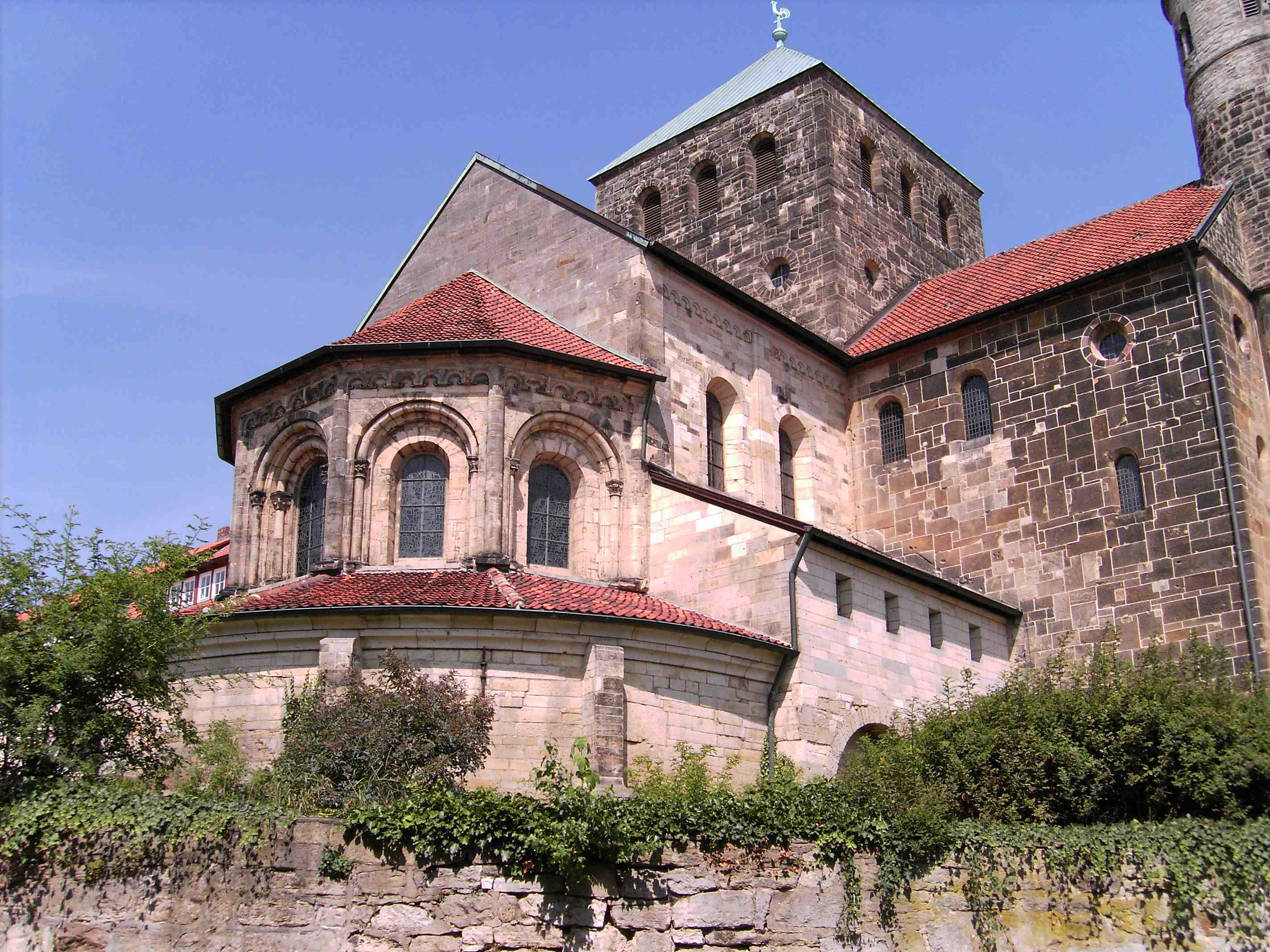 Hildesheim, St Michaels Church